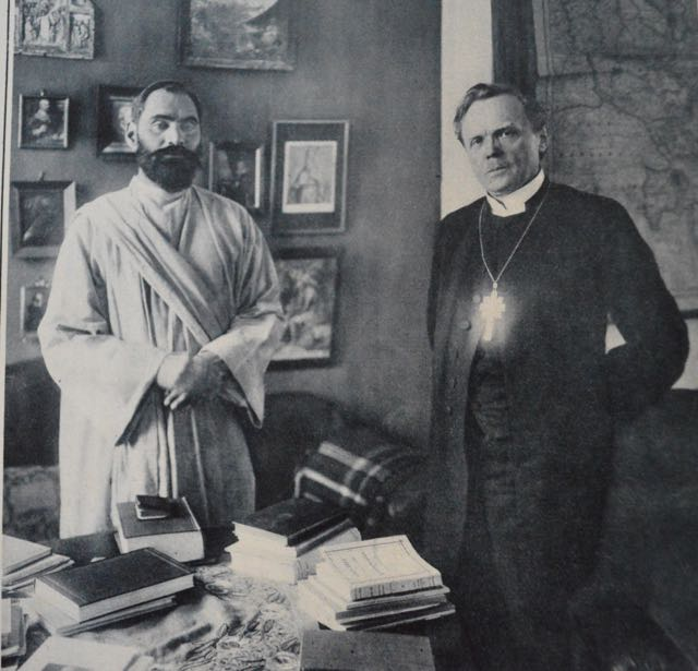 Sadhu Sundar Singh with Archbishop Nathan Söderblom, during his stay in Sweden, around 1921 to 1924